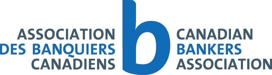 Canadian Bankers Association - Bilingual logo